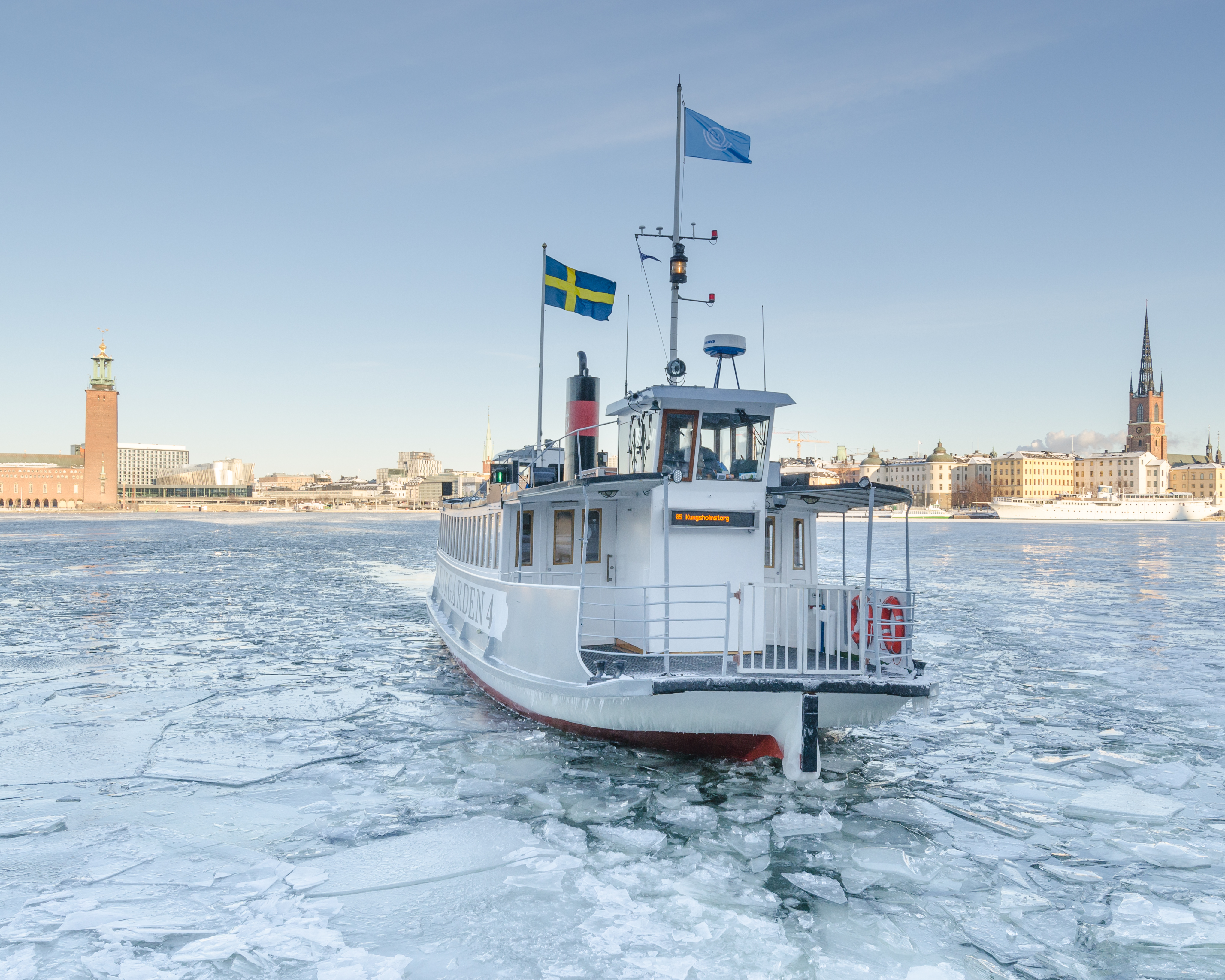 The ferry Djurgården 4 at Riddarfjärden in Stockholm.